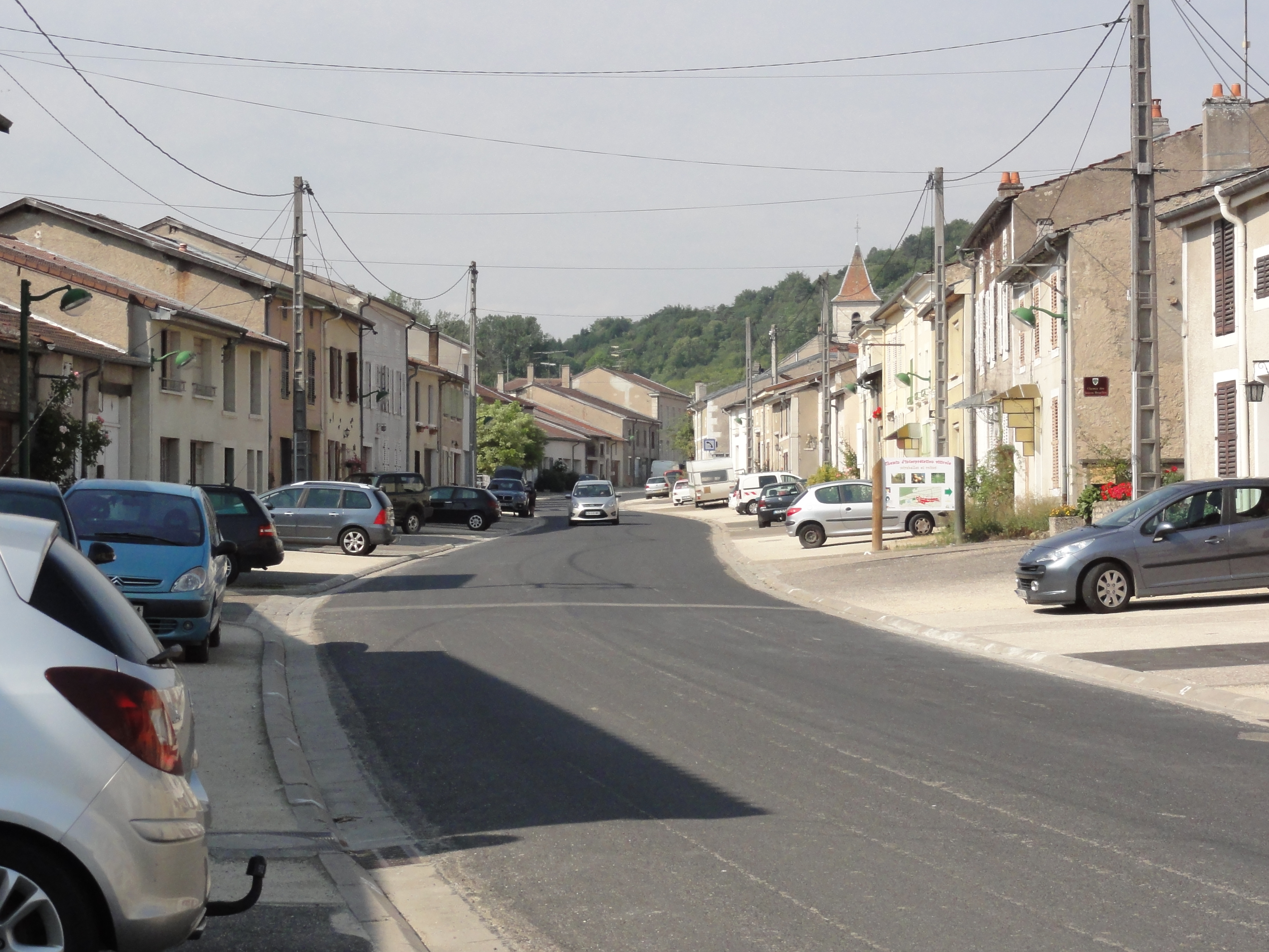 Lucey (Meurthe-et-M.) rue